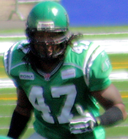 Ricky Ray dropping back to pass. Edmonton Eskimos at Saskatchewan Roughriders, Canadian Football League (CFL)